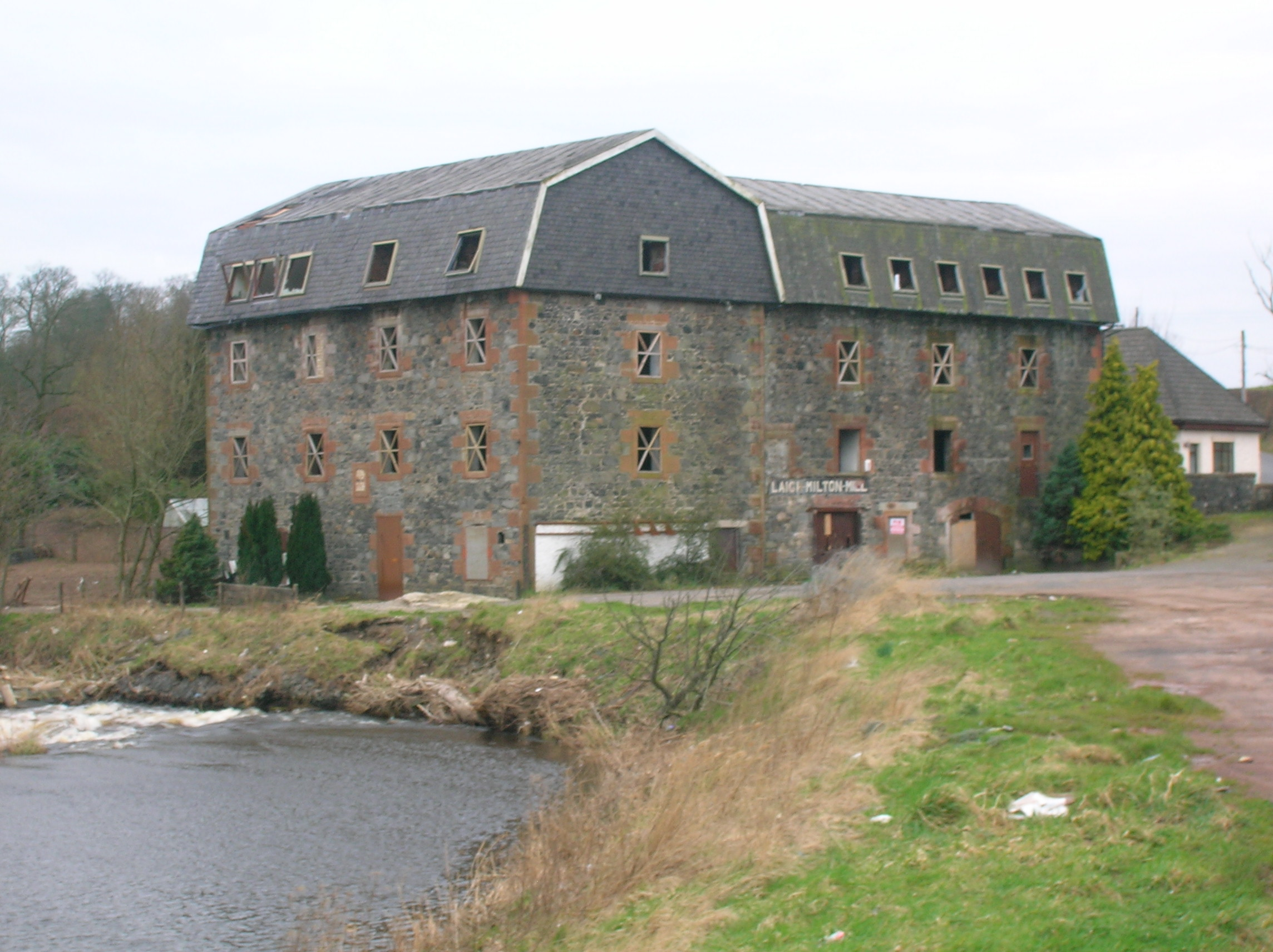 Laigh Milton mill on the Irvine, North Ayrshire, 2007. Scotland.